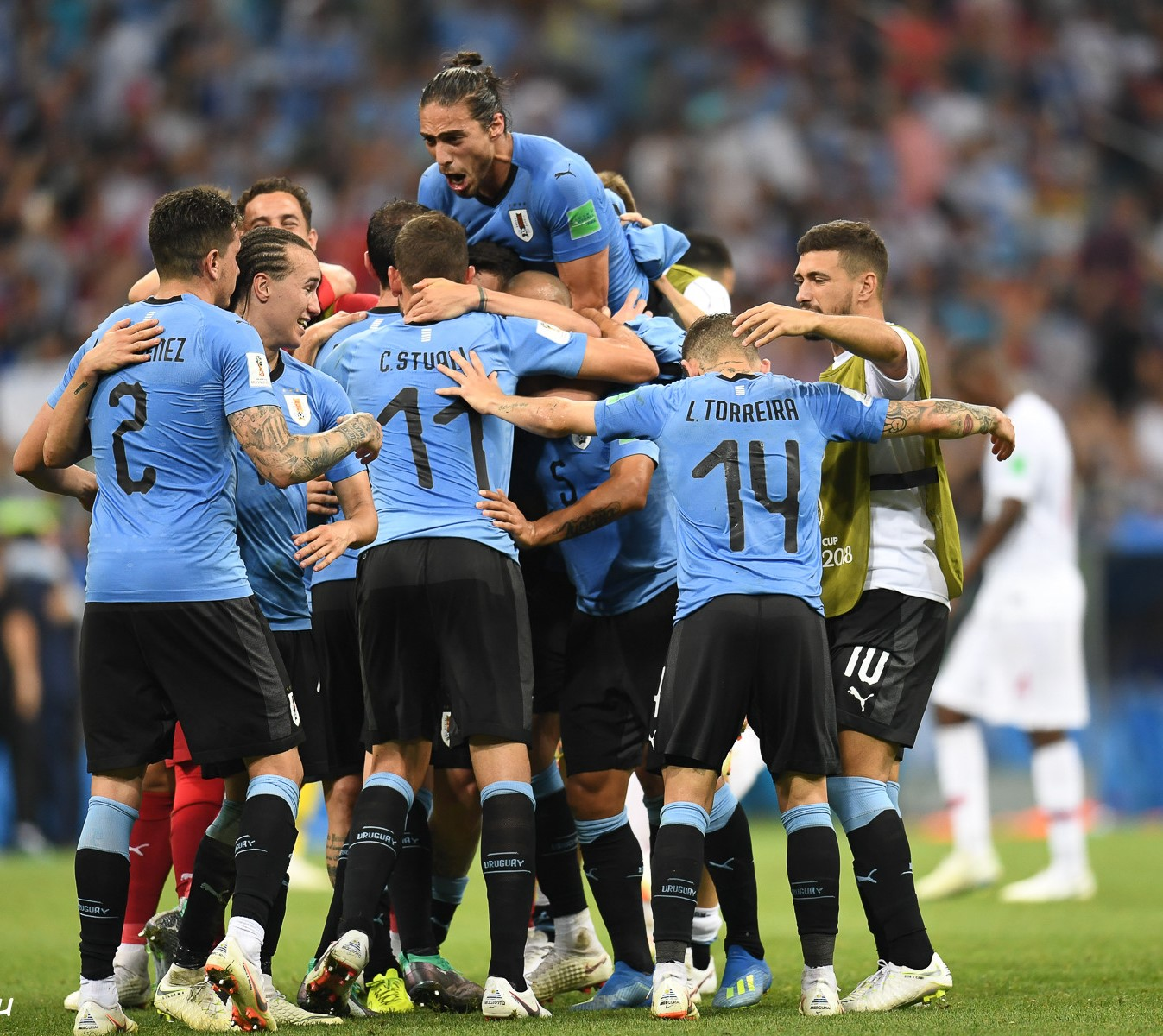 2018 FIFA World Cup Match 49, Uruguay v Portugal